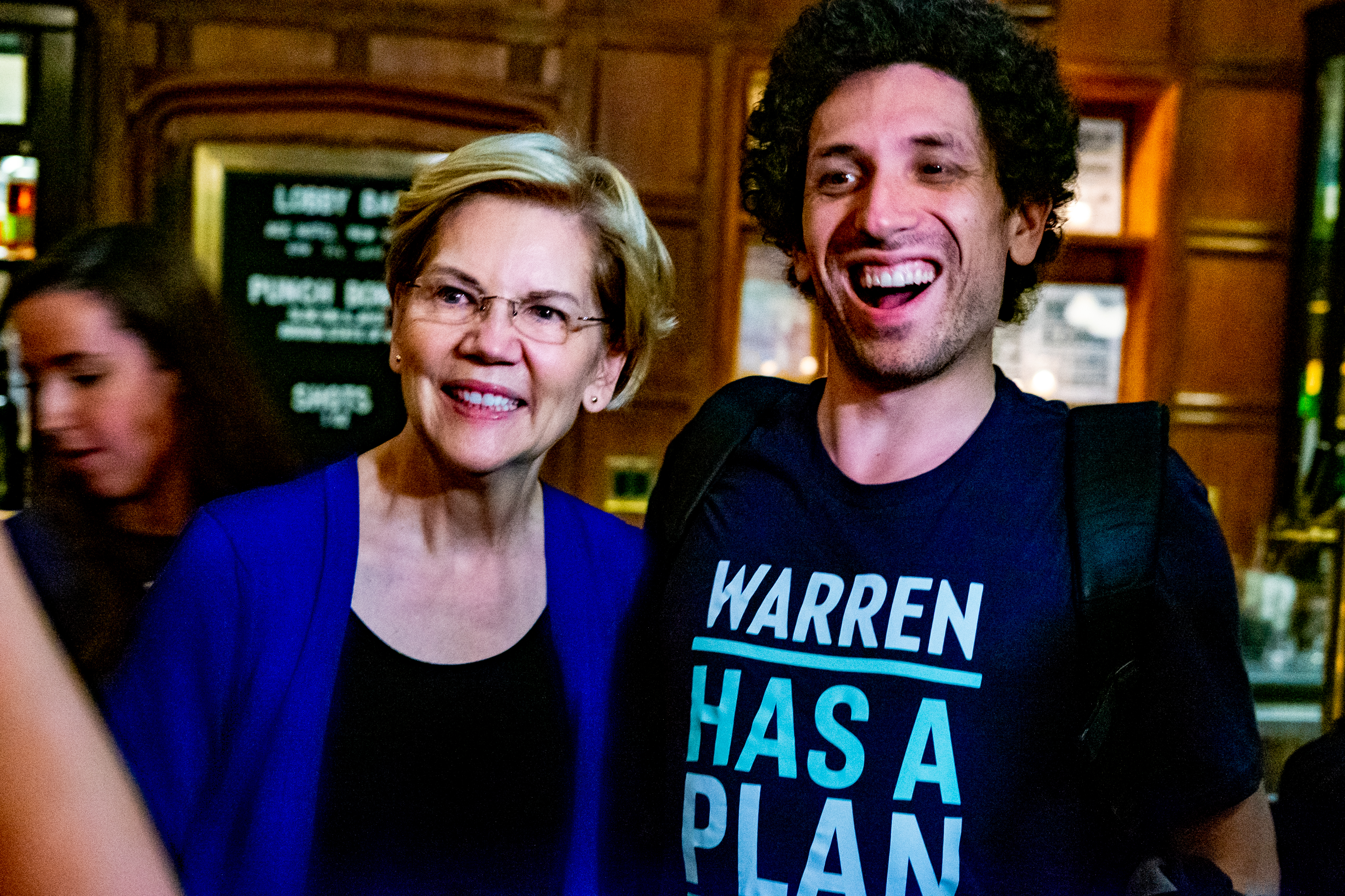 Ace Hotel NY Grassroots Donor Pop Up